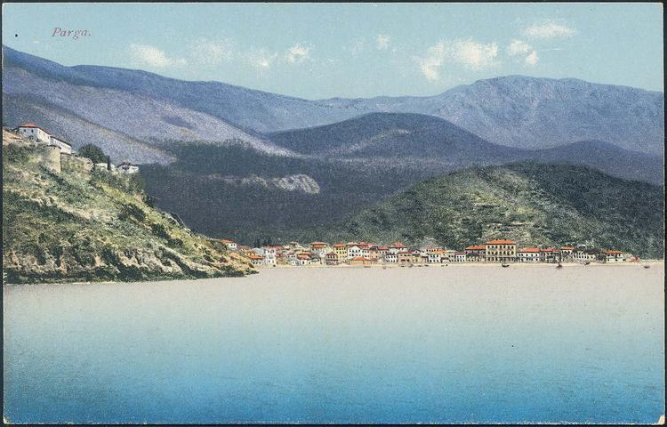 Parga